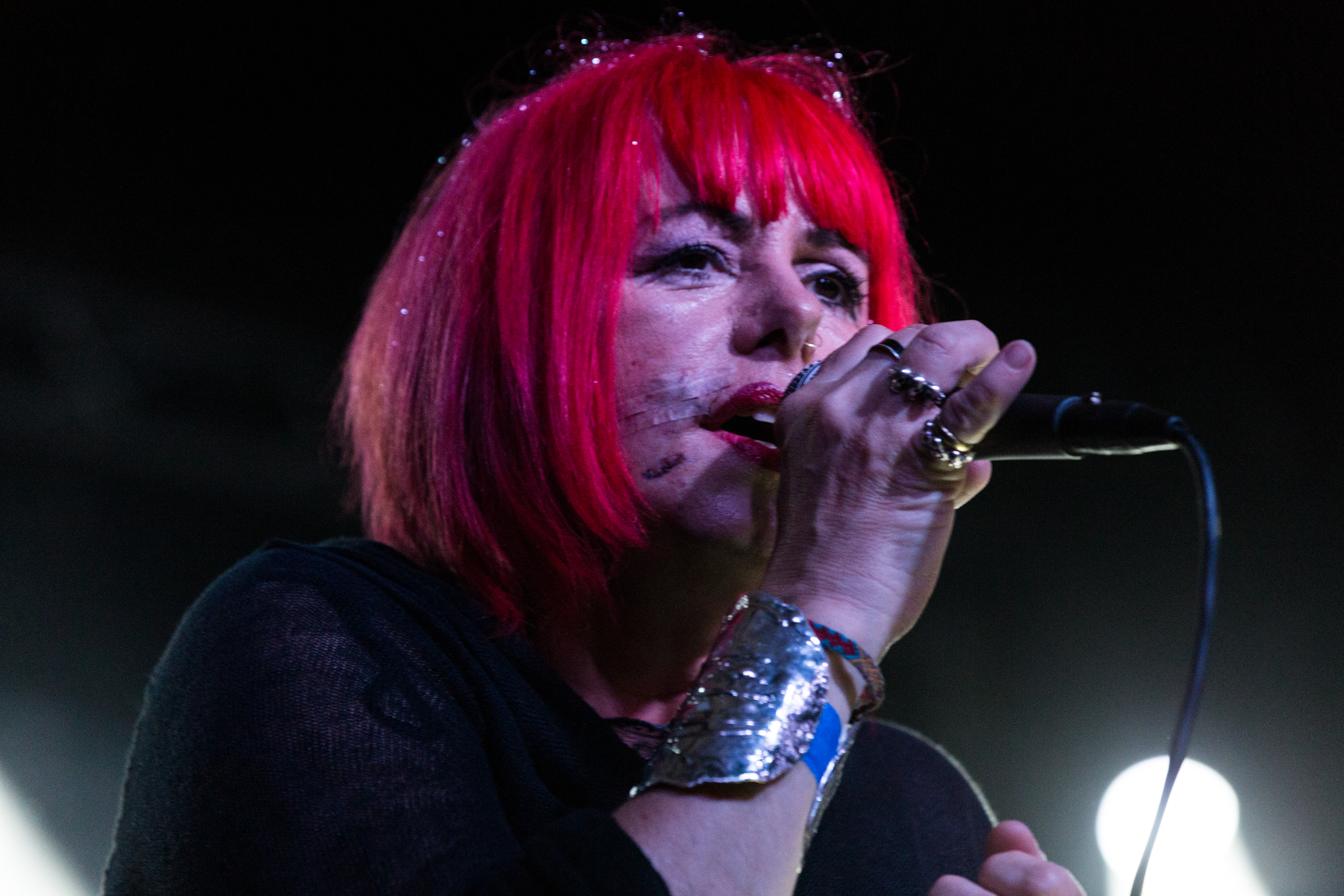 The british gothic rock band Skeletal Family at the Wave-Gotik-Treffen 2017 in Leipzig/Germany (Venue Heathen village).